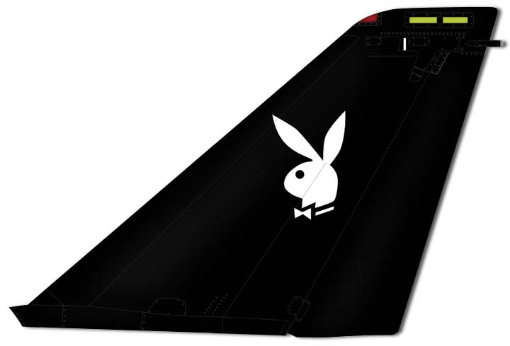 The tail of a US Navy F-14A Tomcat, belonging to VX-4, the "Evaluators". Original created in Adobe Photoshop by Erik Hess in 2004.